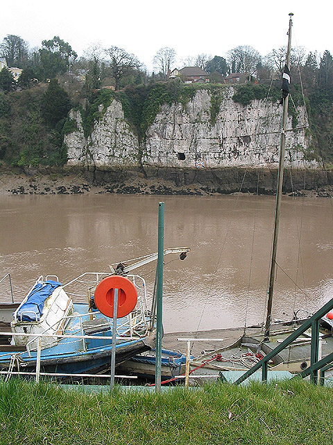 Limestone cliff with square cave, known as 'The Gloucester Hole'